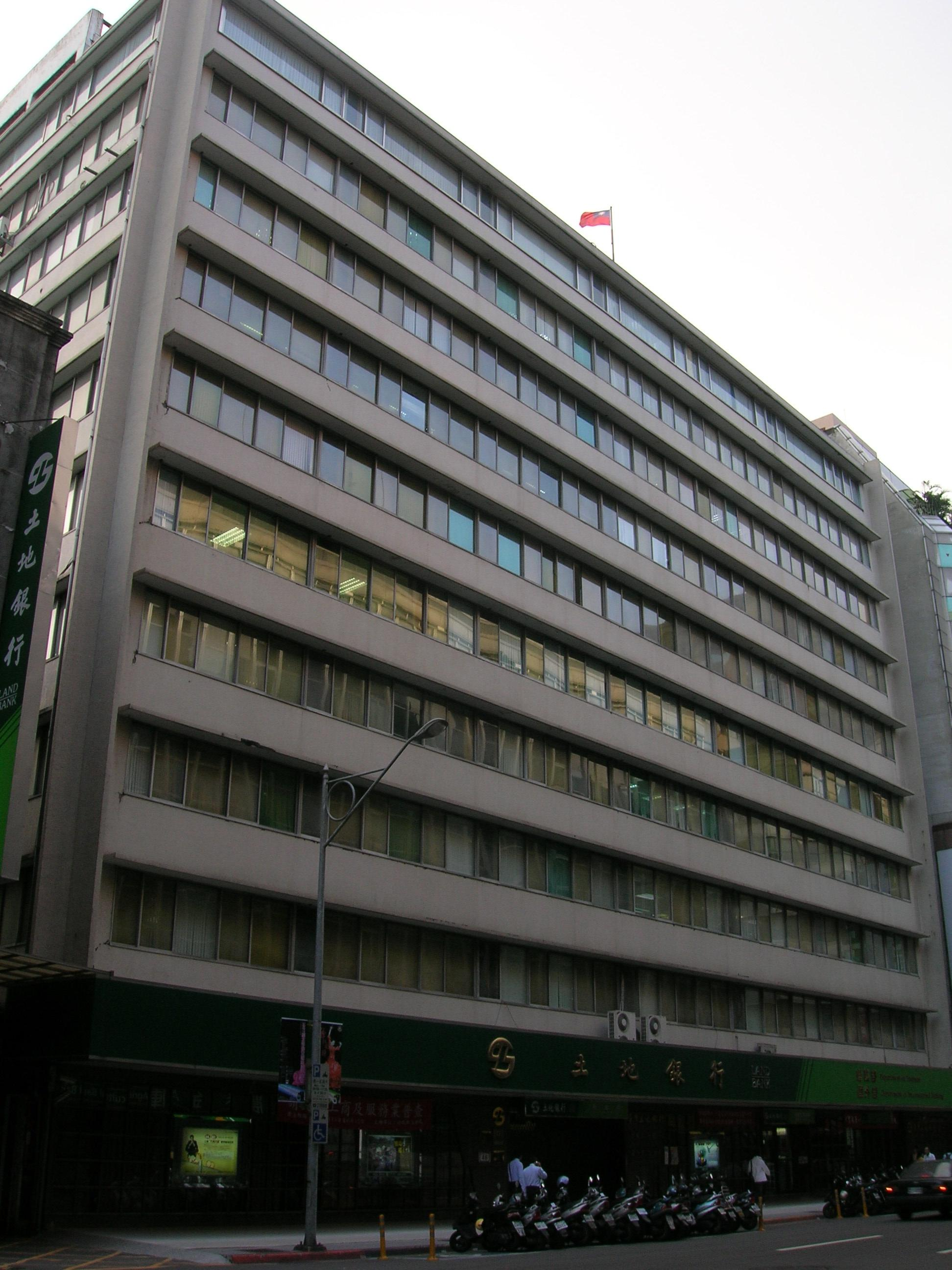 Head office of Land Bank of Taiwan.